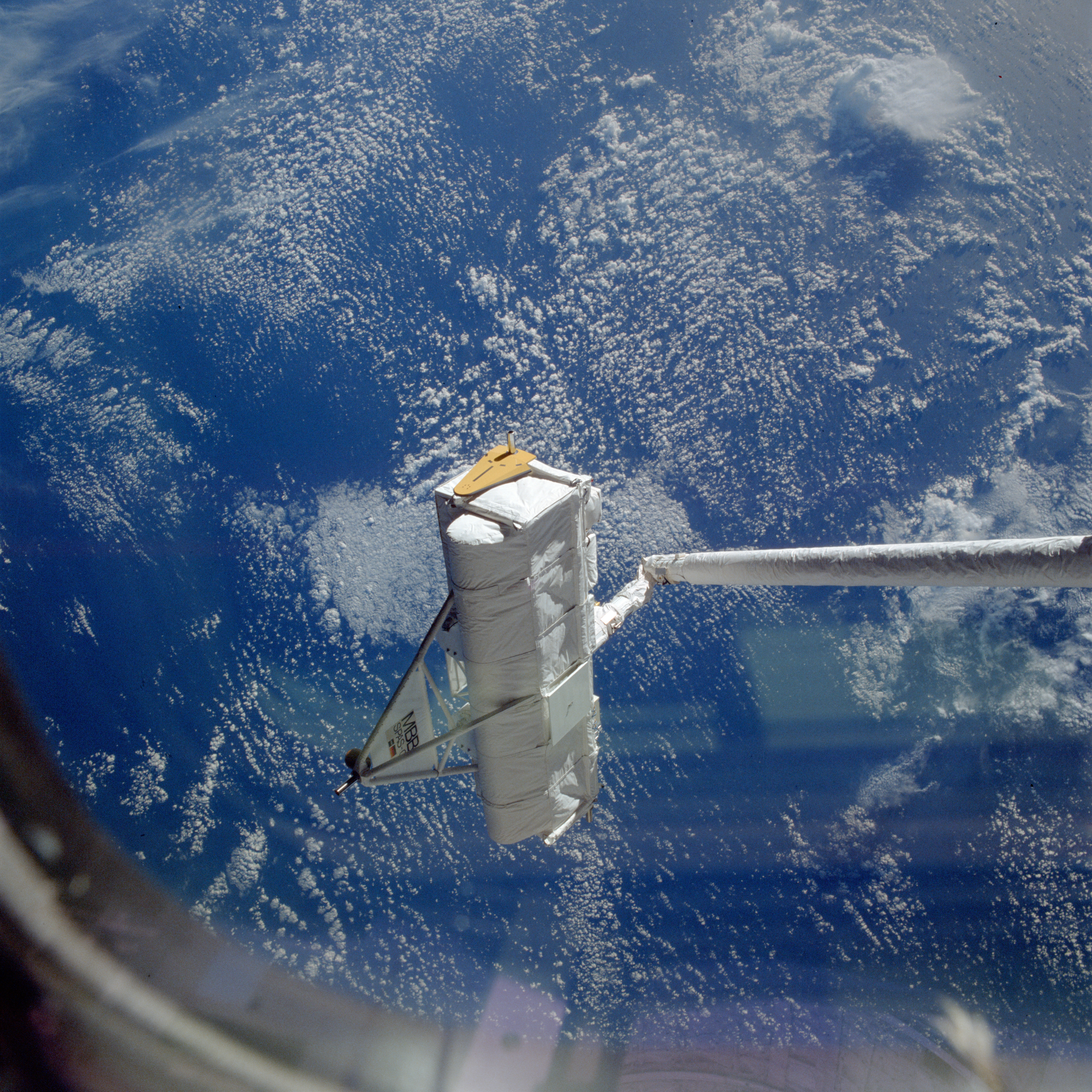 SPAS-1 grappled by the RMS during STS-7. Challenger's remote manipulator system (RMS) arm grasps Shuttle pallet satellite (SPAS-01) during proximity operations. The frame shows a number of reflections on the window, located overhead in the aft flight deck.